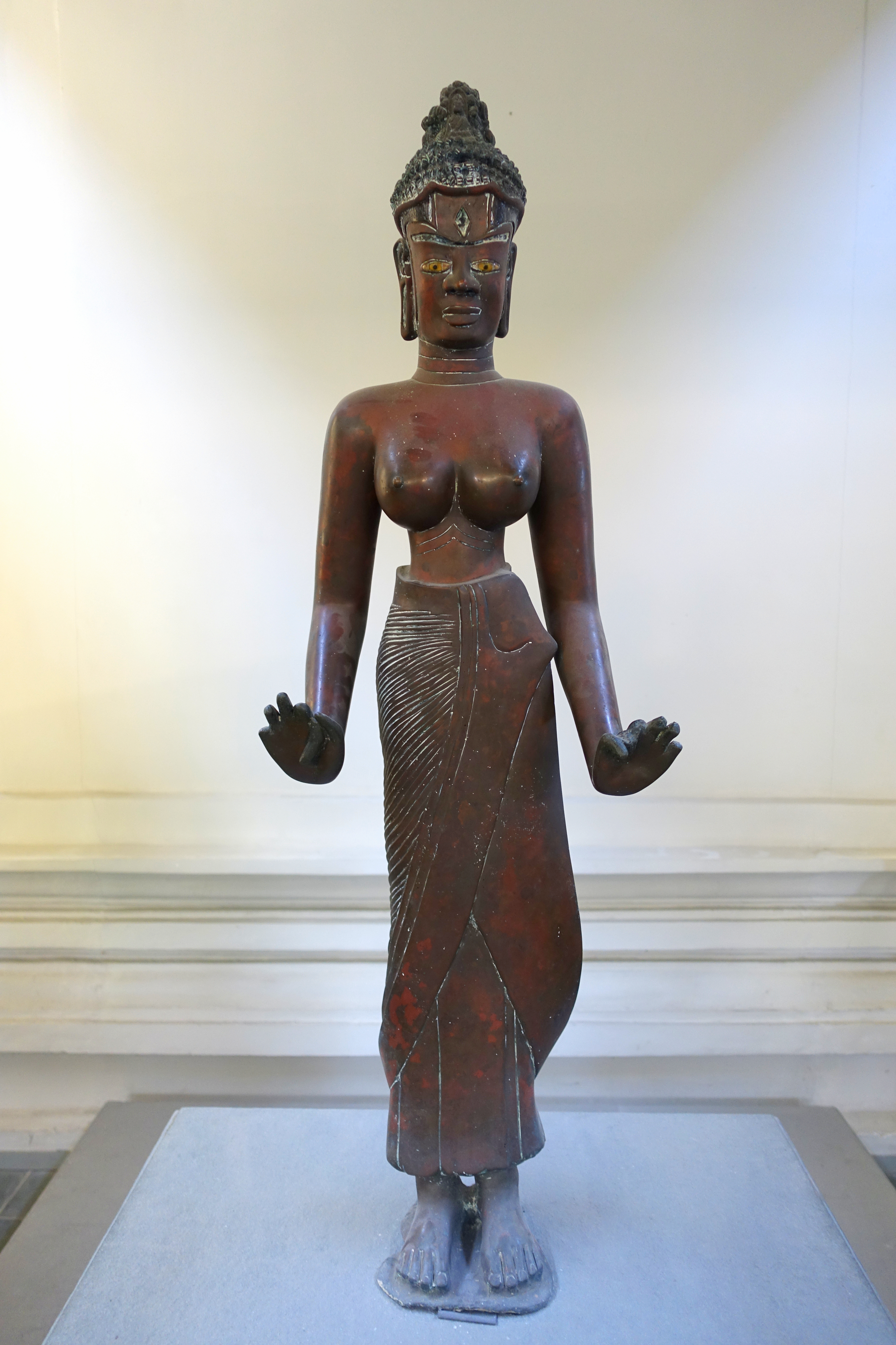 Cham sculpture at the Museum of Cham Sculpture, Da Nang, Vietnam. This artwork is in the public domain because the artist died more than 70 years ago.